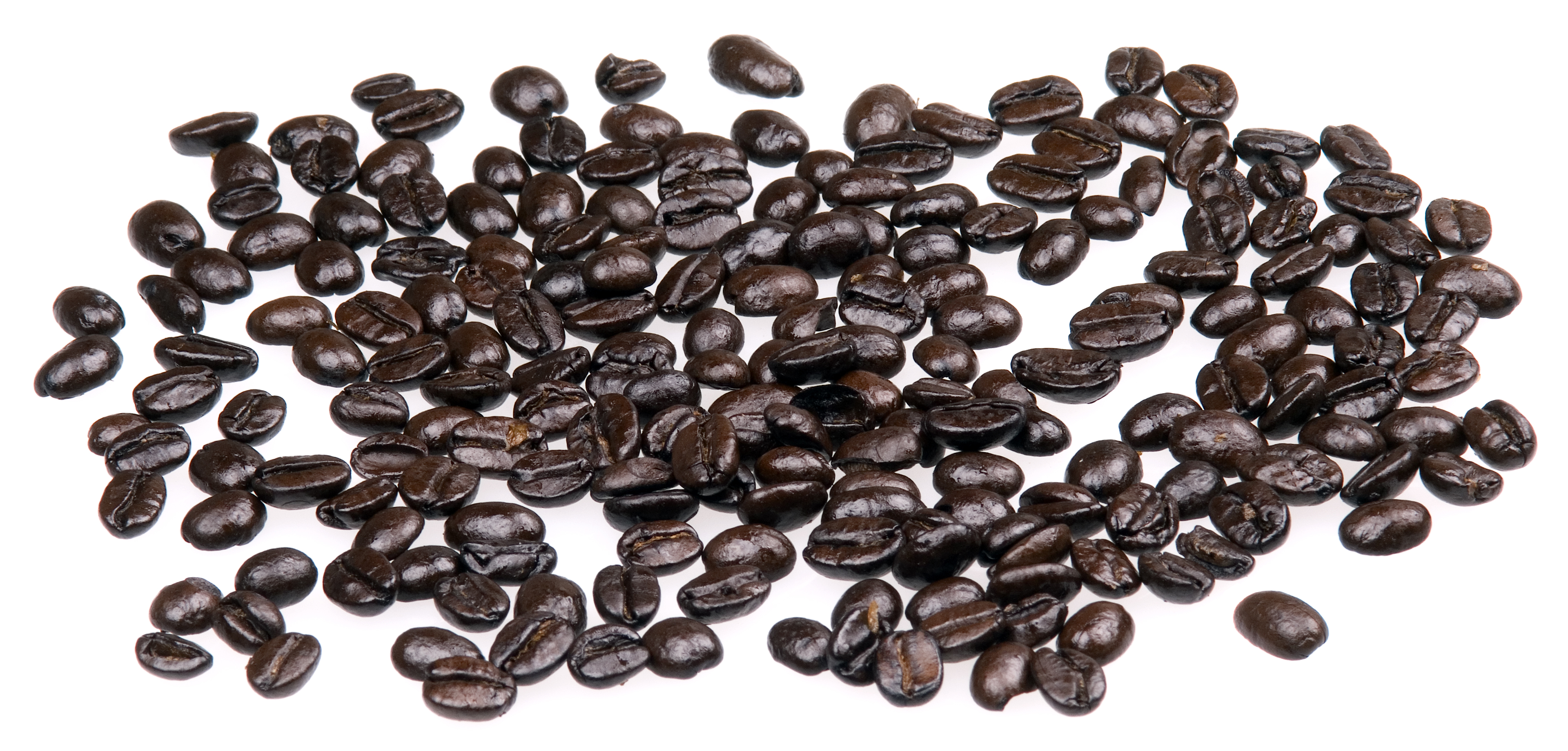 Rwandan dark roast coffee beans.